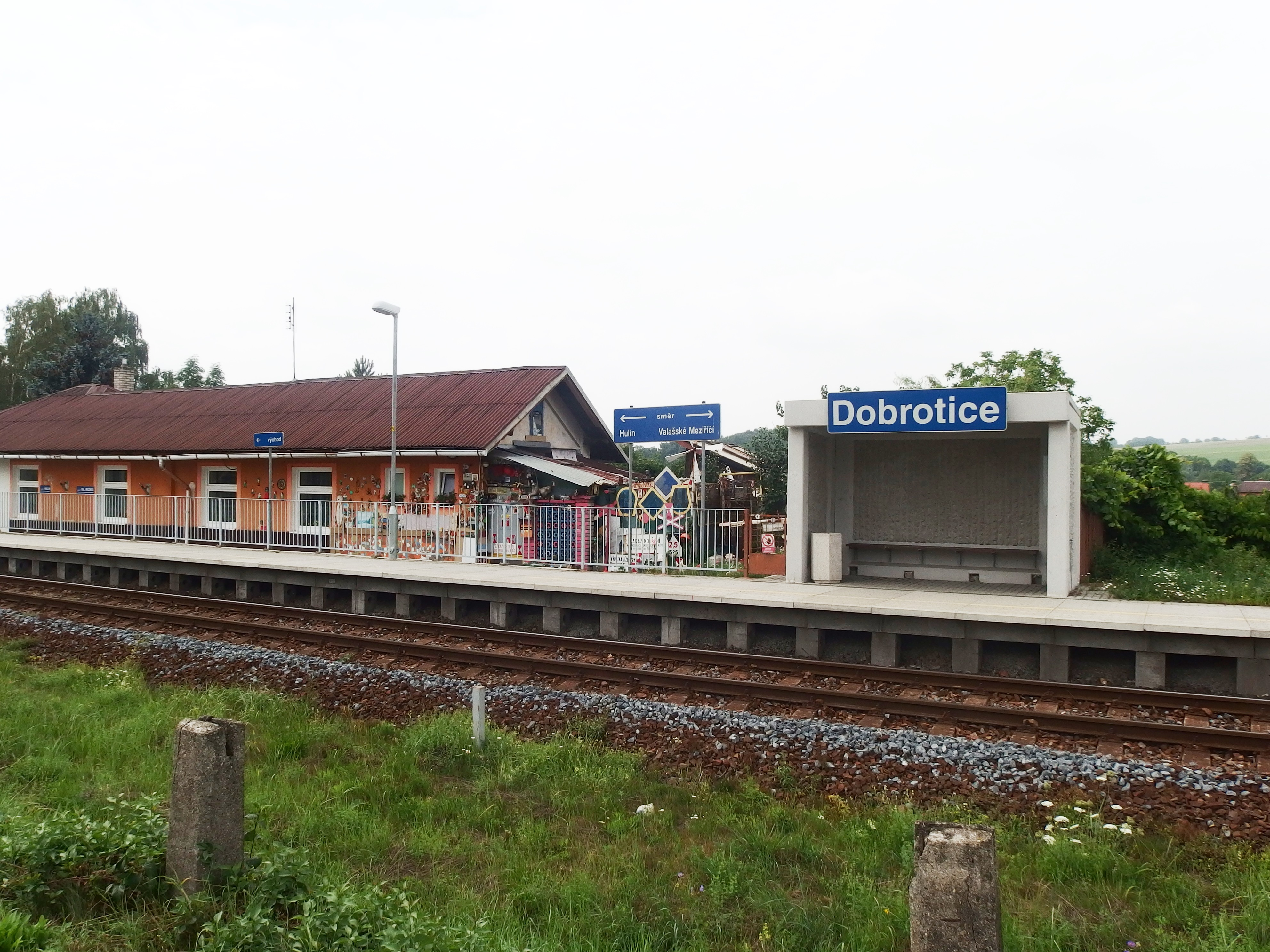 Holešov, Kroměříž District, Czech Republic, part Dobrotice.